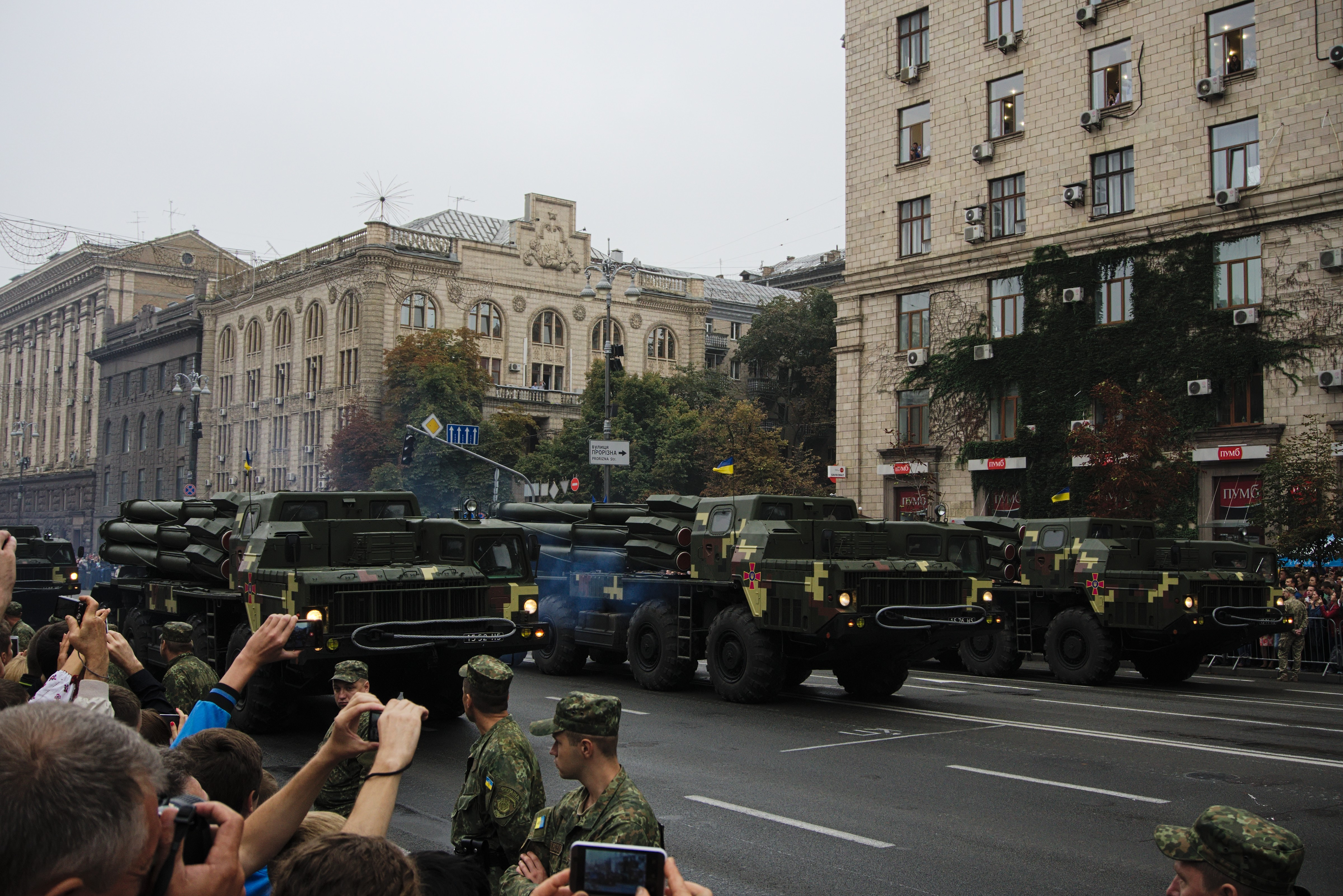 MRL 9A52-2 "Smerch". 300 mm. 12 shells.